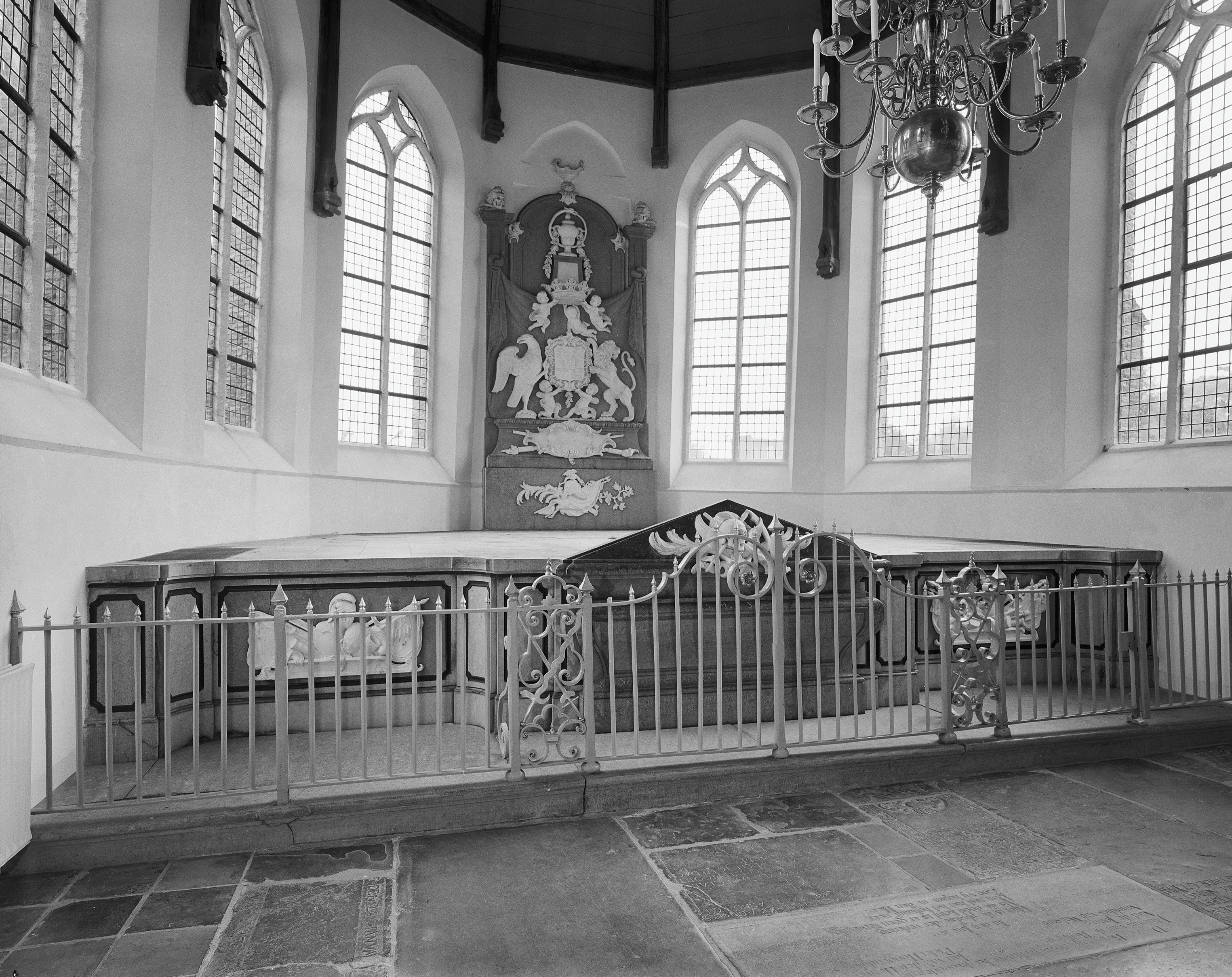 Mausoleum van Nassau-LaLecq in Ouderkerk aan den IJssel (The Netherlands (1994)